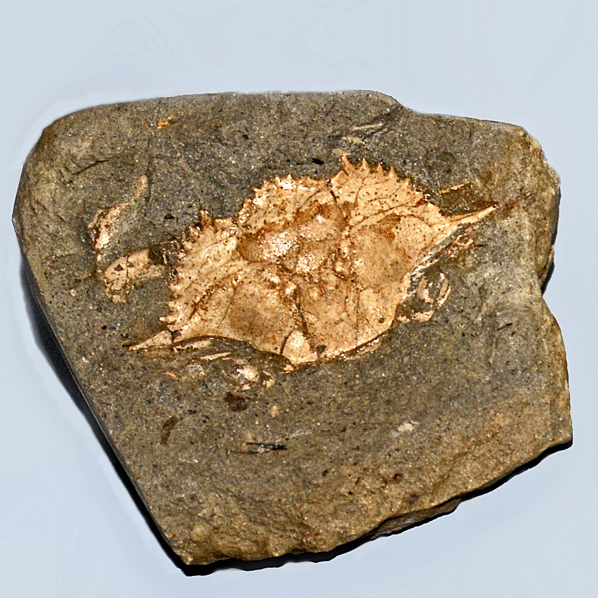 Fossil of Portunus convexus, on display at the Museo Paleontologico Giulio Maini, Ovada